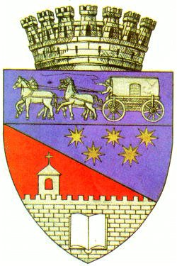 Coat of arms of Râmnicu Vâlcea, Vâlcea County, Romania.